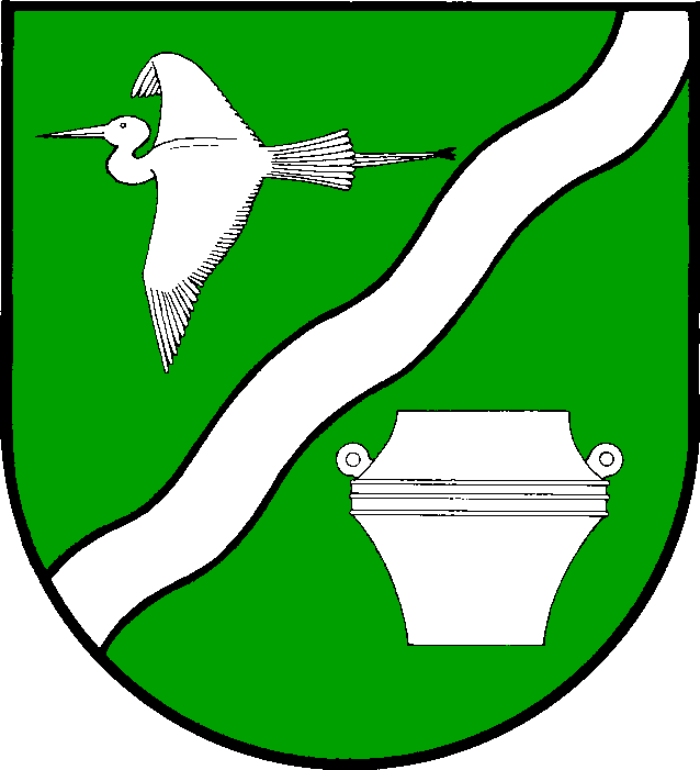 Coat of arms of the municipality Hamdorf in Schleswig-Holstein, Germany.